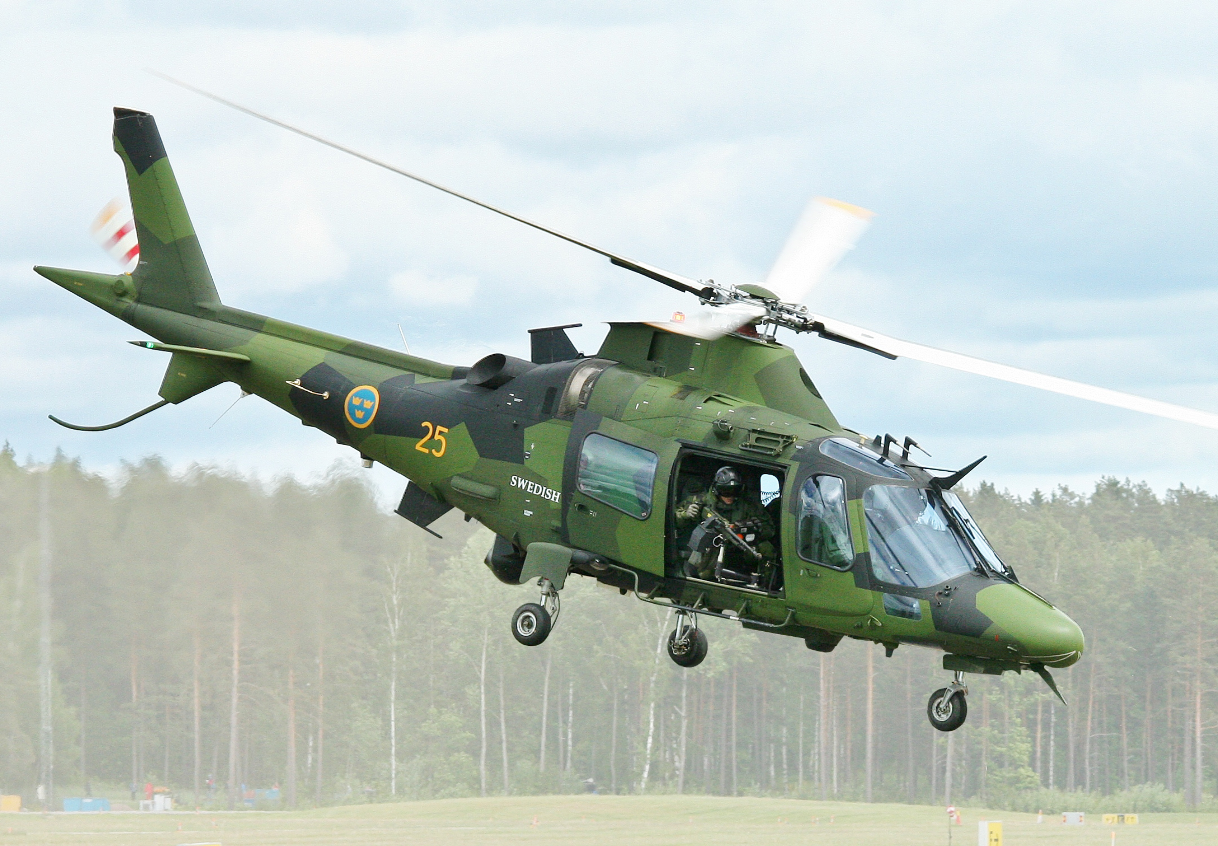 Agusta A109 (Hkp-15A)